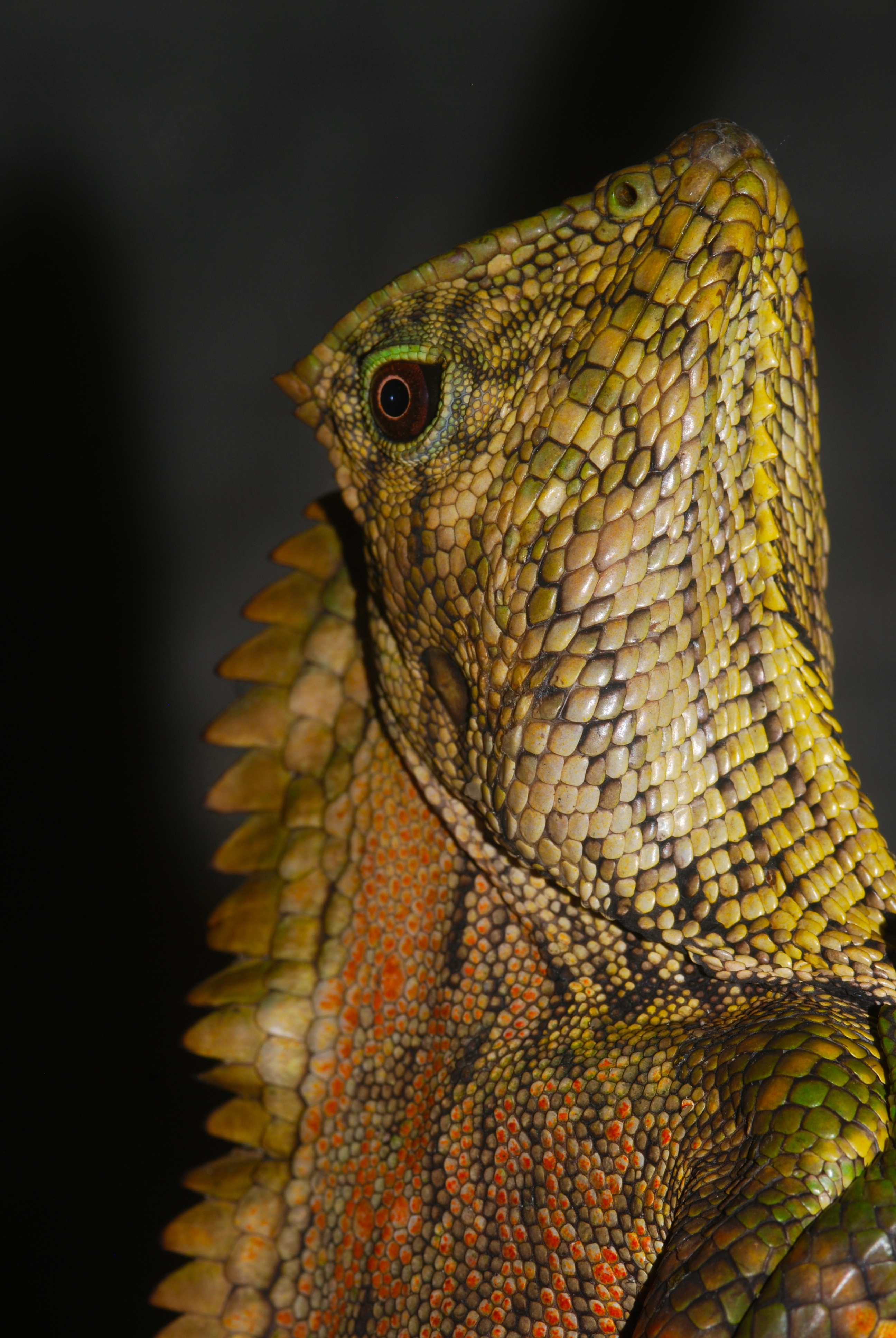 Butterfly Farm, Brinchang, Cameron Highlands, Pahang, MALAYSIA